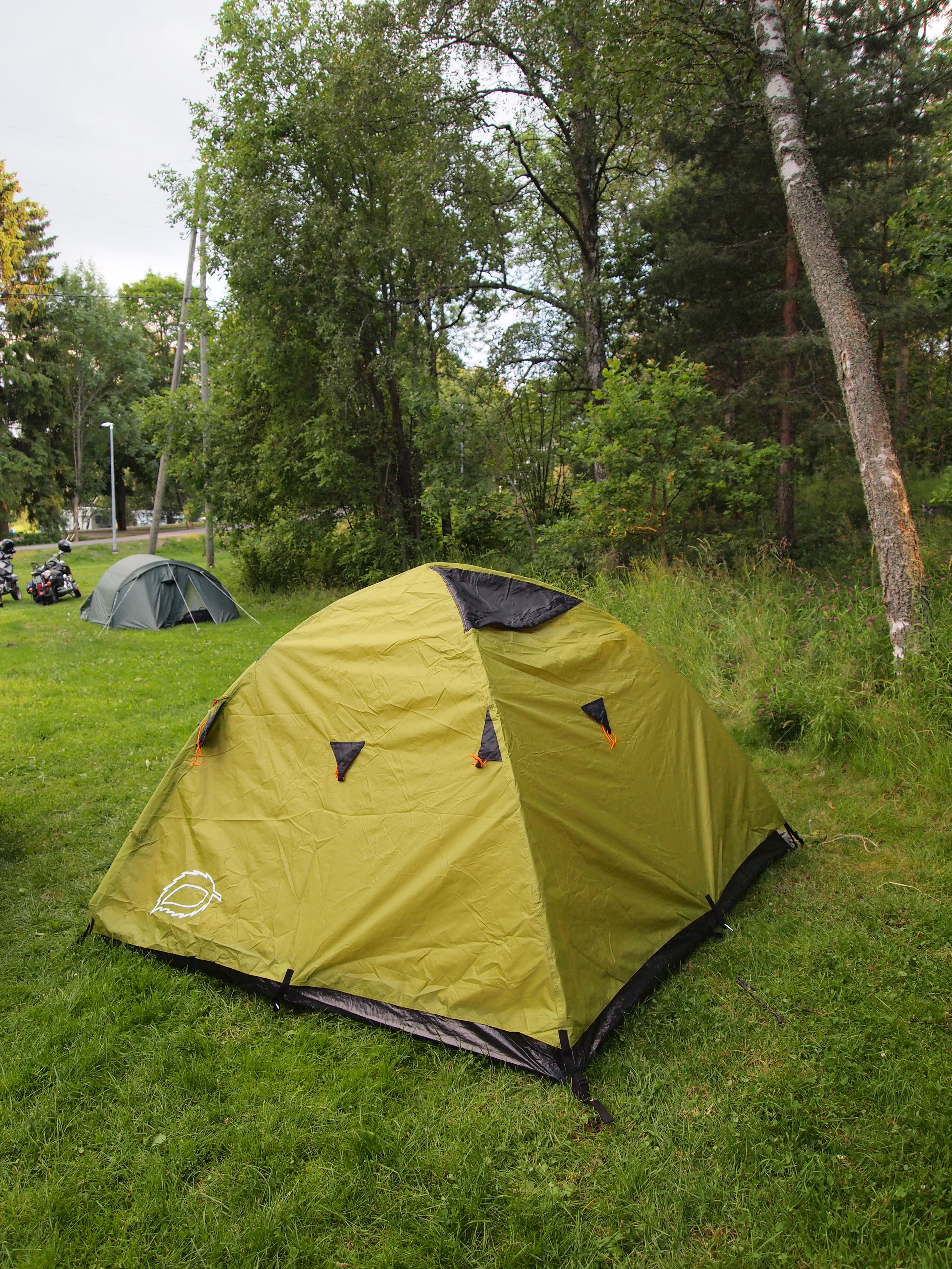 Tent in Ruissalo Camping area, Turku. This photograph was taken with an Olympus E-PL1